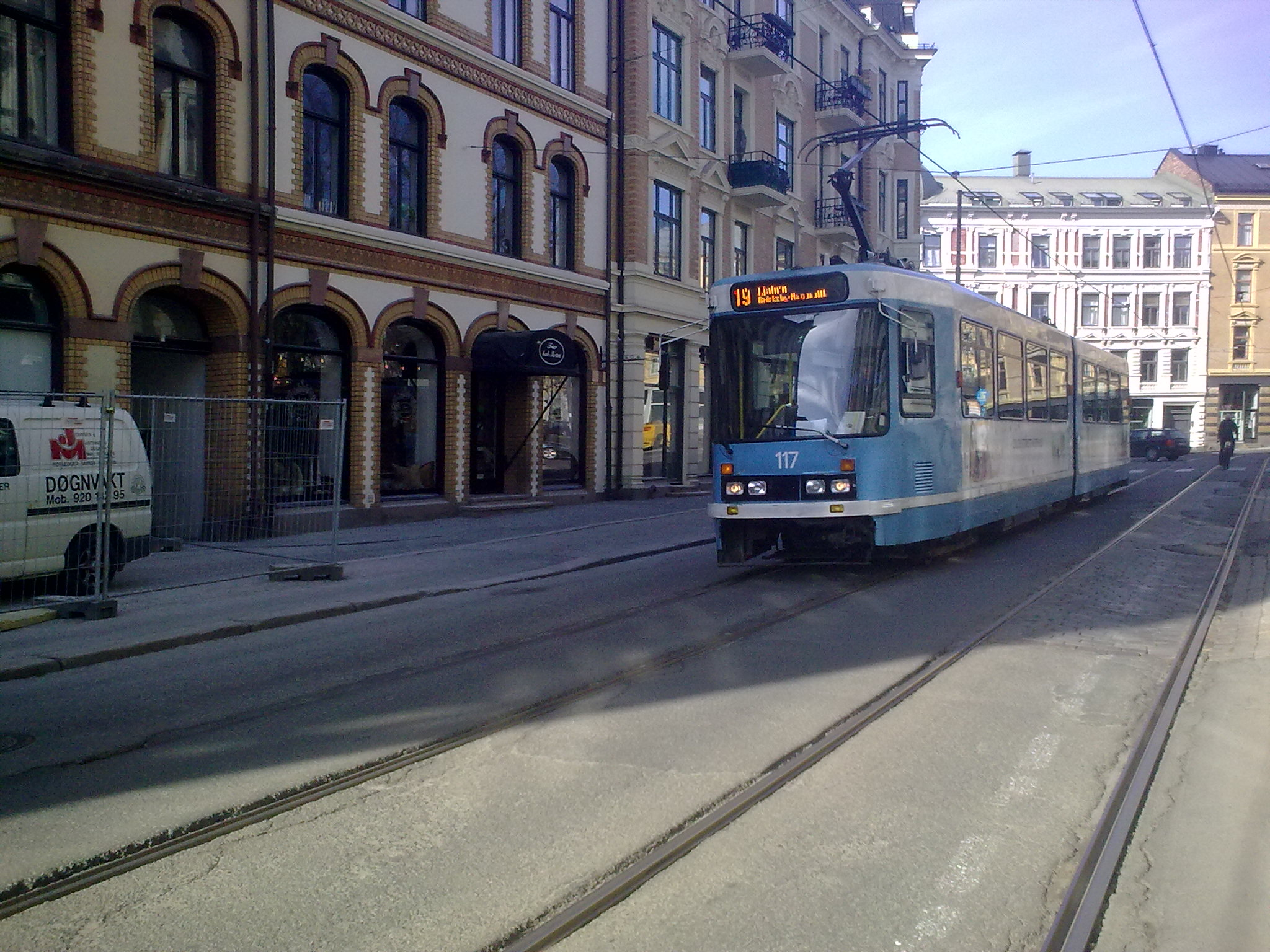 Tram at Riddervolds gate on the Briskeby line, heading towards Ljabru